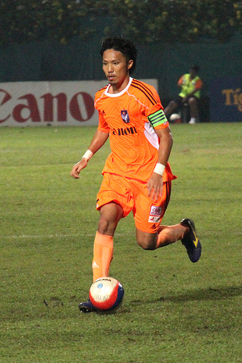 Norihiro Kawakami playing against Balestier Khalsa in an S.League fixture at Jurong East Stadium on 06 April 2012.